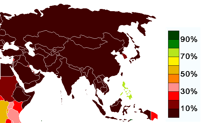 Map of Catholic population percentages in Asia